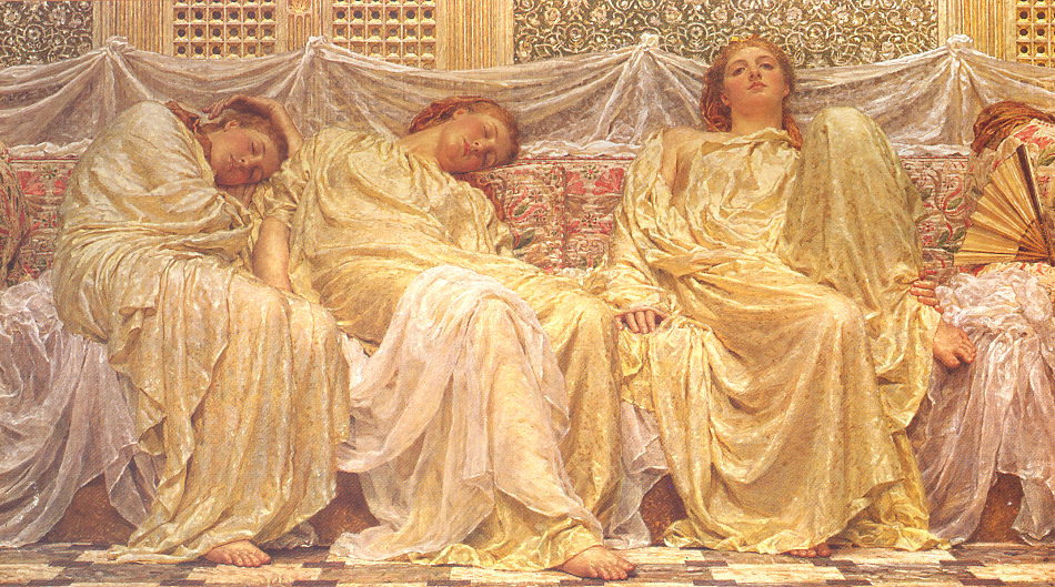 Dreamers